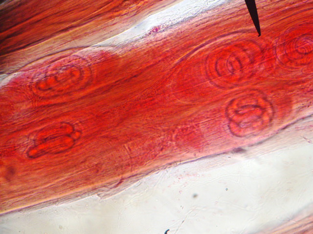 Trichinella spiralis larvae within the diaphragm muscle of a pig (at pointer tip). Trichinella were historically transmitted to humans by eating undercooked pork.